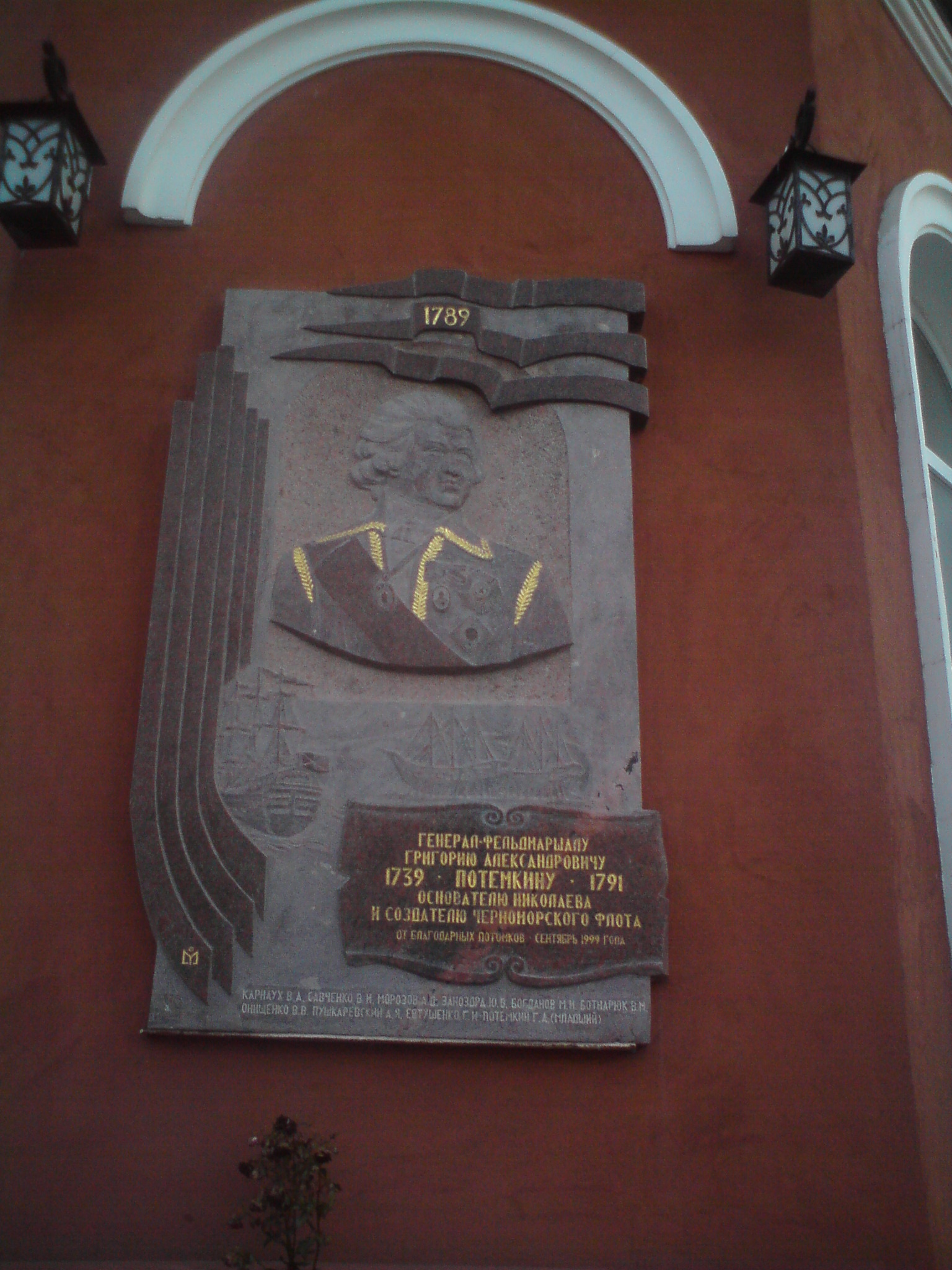 Plaque Potemkin, Mykolaiv